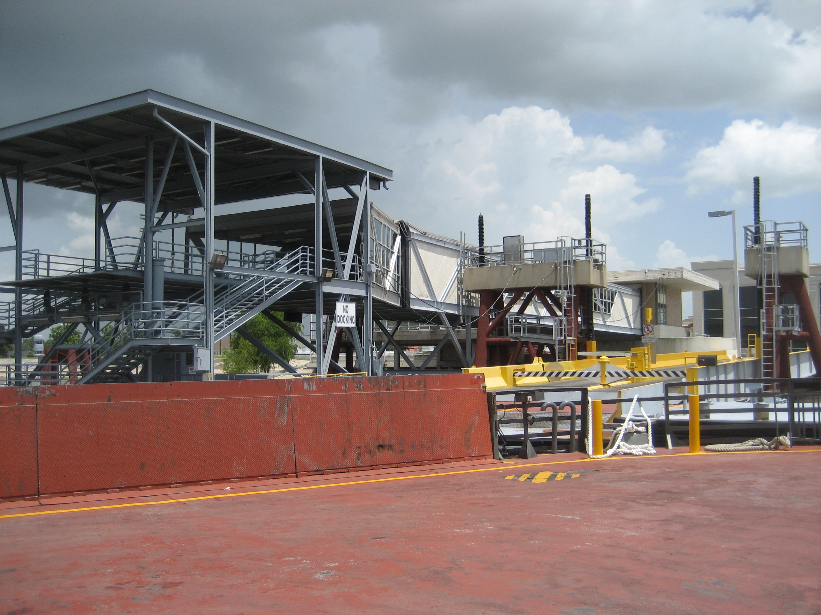 Gretna, Louisiana ferry landing, seen from the ferry to New Orleans.